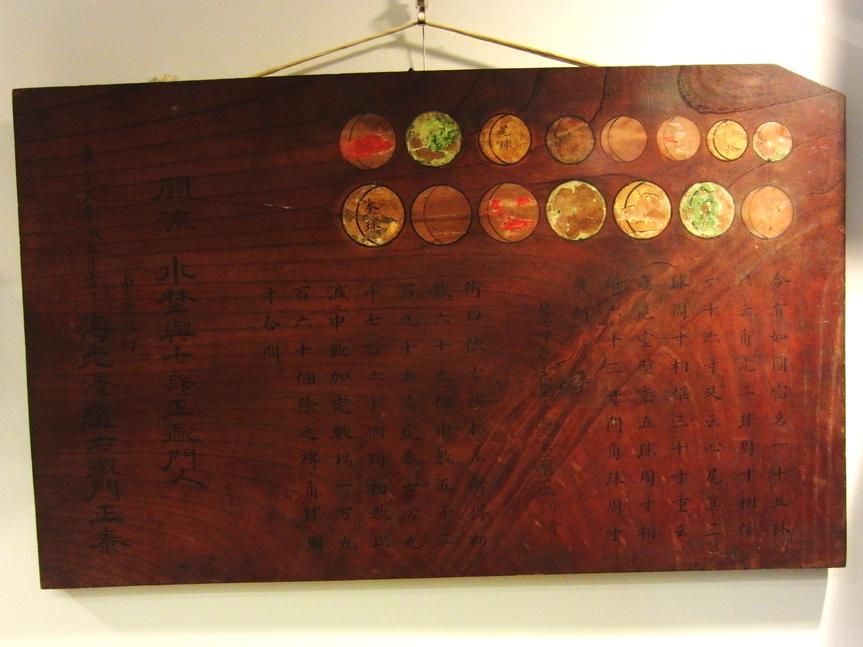 Sangaku of Konnoh Hachimangu Shrine, Shibuya, Tokyo, Japan. Tangible Folk Cultural Properties of Shibuya ward. This Sangaku was dedicated in 1850.